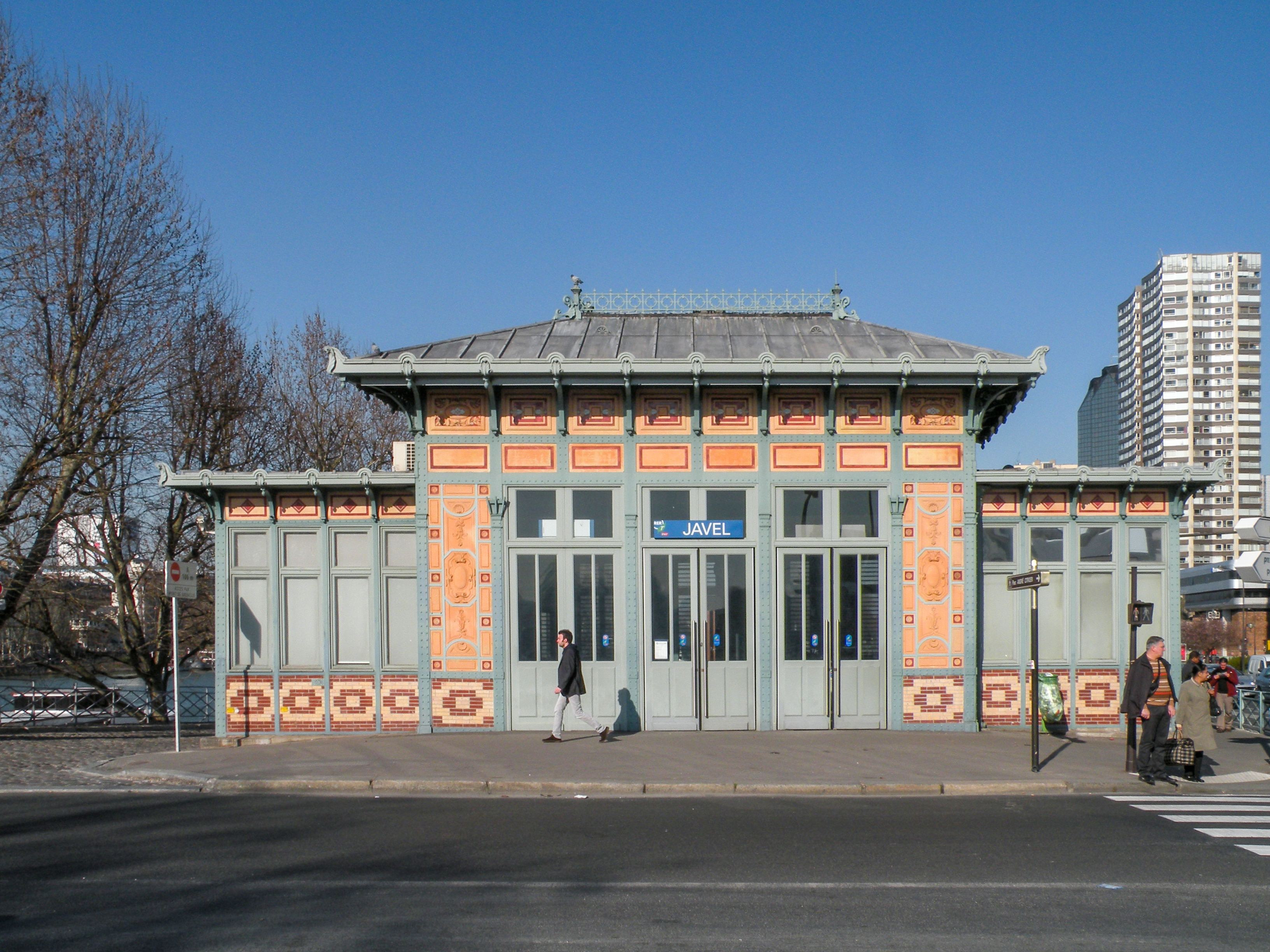 Gare de Javel in Paris